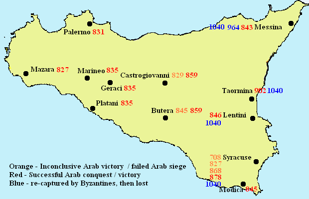 Arab campaigns in Sicily